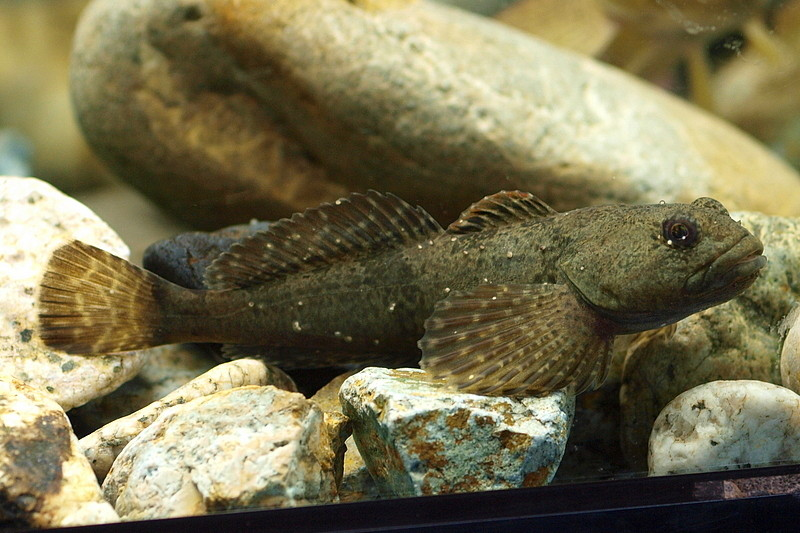 Fluvial Sculpin Cottus nozawae (Snyder, 1911)